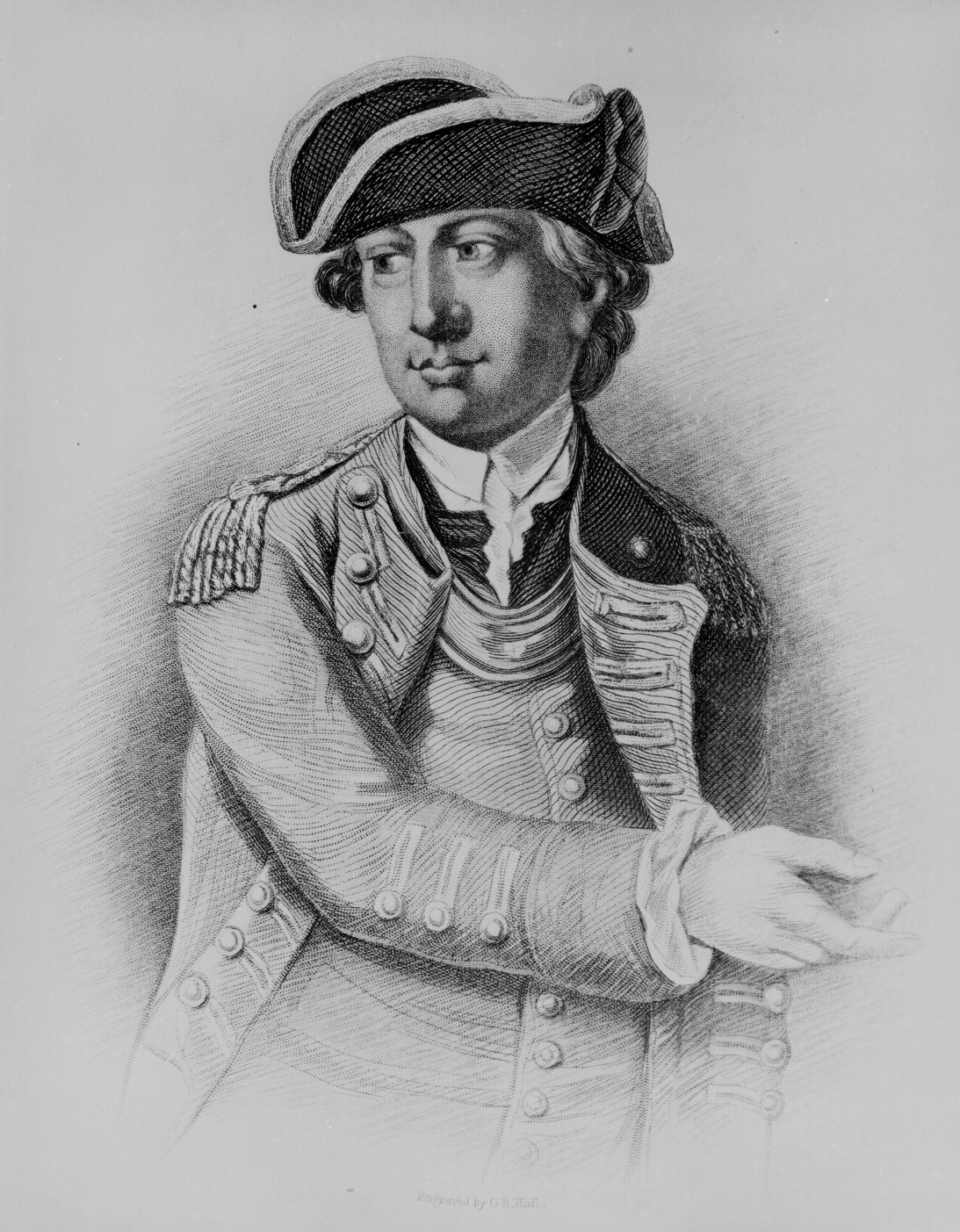 Engraving of Charles Lee, from the 18th century.